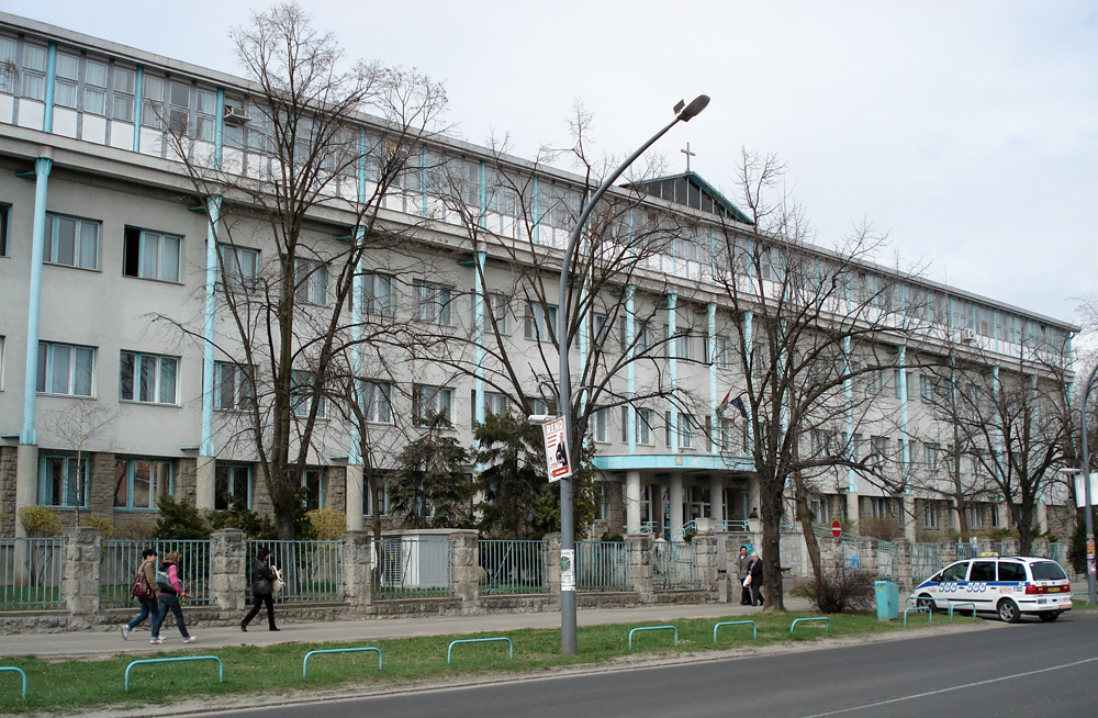 Szt. Ferenc Hospital, Miskolc, Hungary